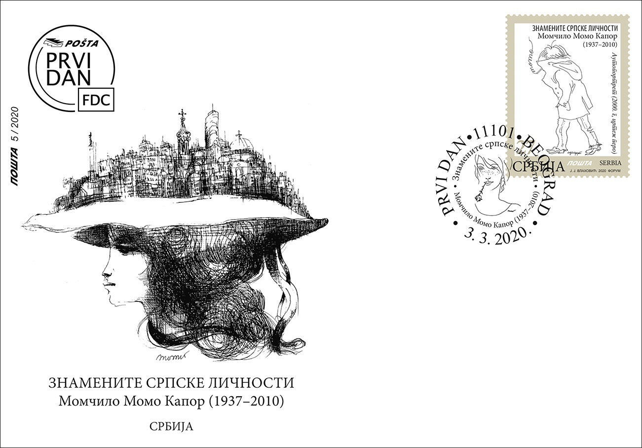 Momčilo Momo Kapor, Author and Illustrator